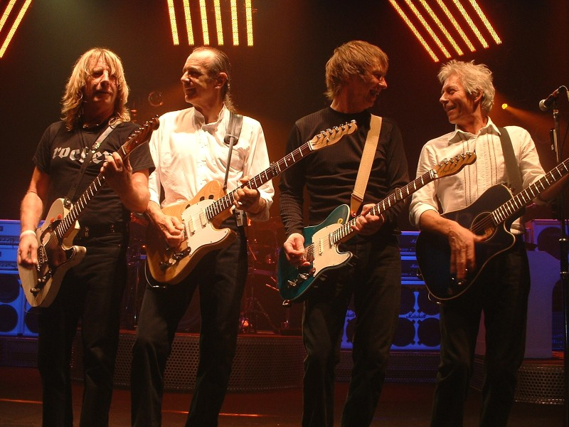 Status Quo on stage at the Colston Hall in Bristol on 15th November 2005 (L to R: Rick Parfitt, Francis Rossi, John 'Rhino' Edwards and Andrew Bown).